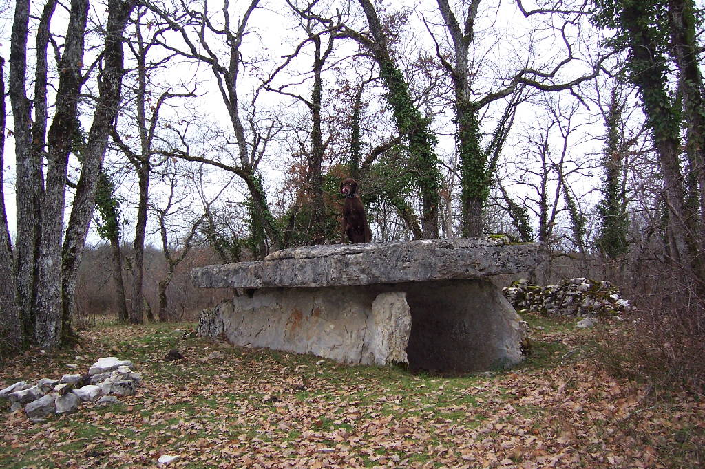 Dolmen called "table de roux" in town Assier in France.